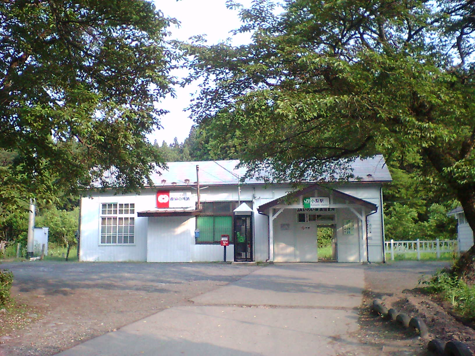 Old station building of Konashi train station in the former town of Senmaya, that now is a part of Ichinoseki, Iwate. In use until October 2006.